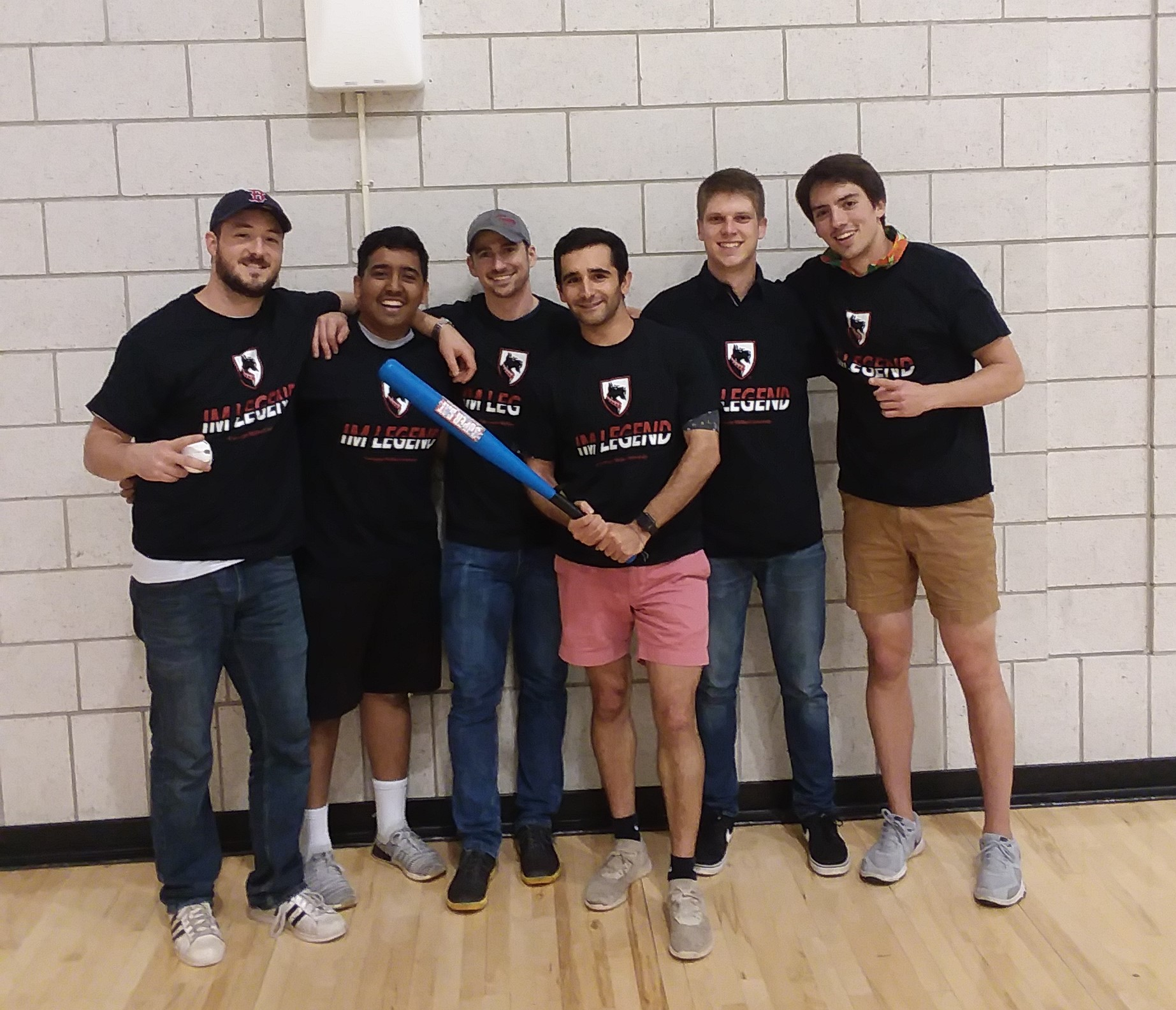 Student organized team that won the intramural wiffle ball league at carnegie mellon university in spring of 2019